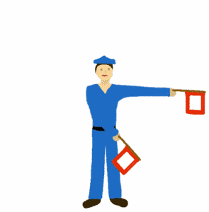 Letter Z of the nautical semaphore flag signalling system Source: Martin Hawlisch (User:LosHawlos) My own drawing done in gimp First uploaded to de: in jun-2004